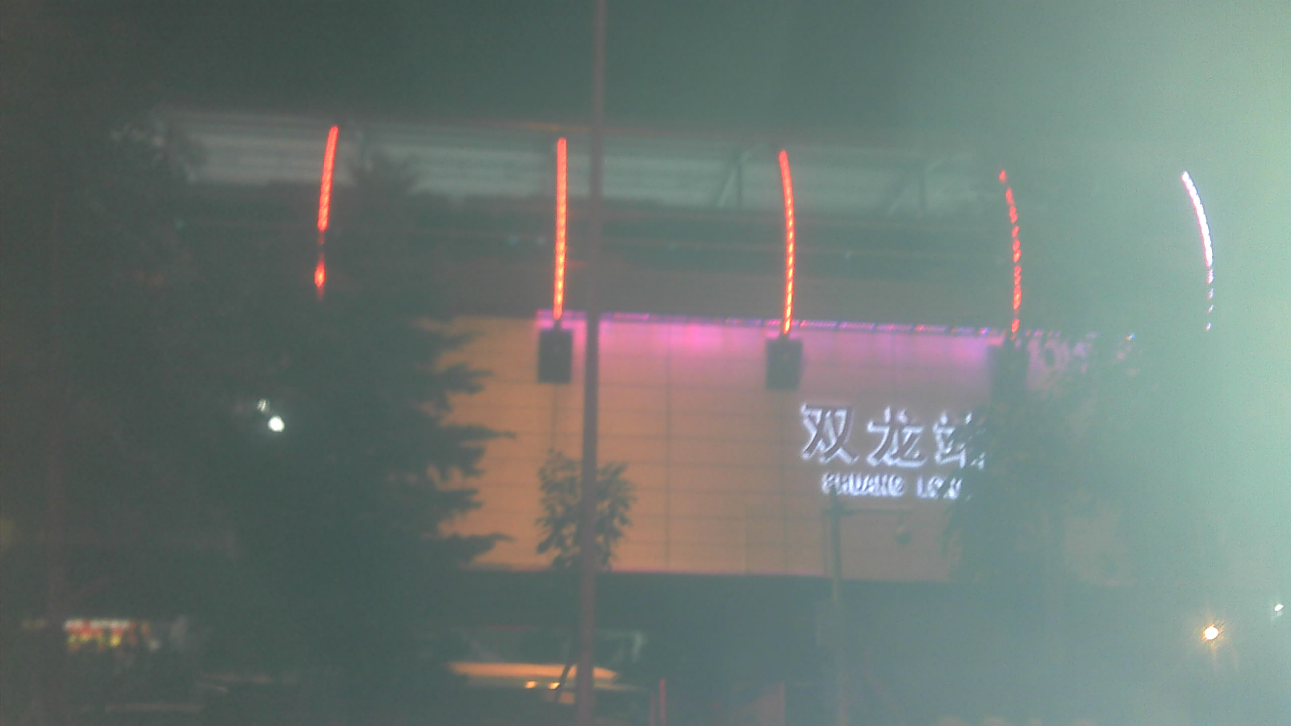 This photo was taken as Oct 02, 2011.